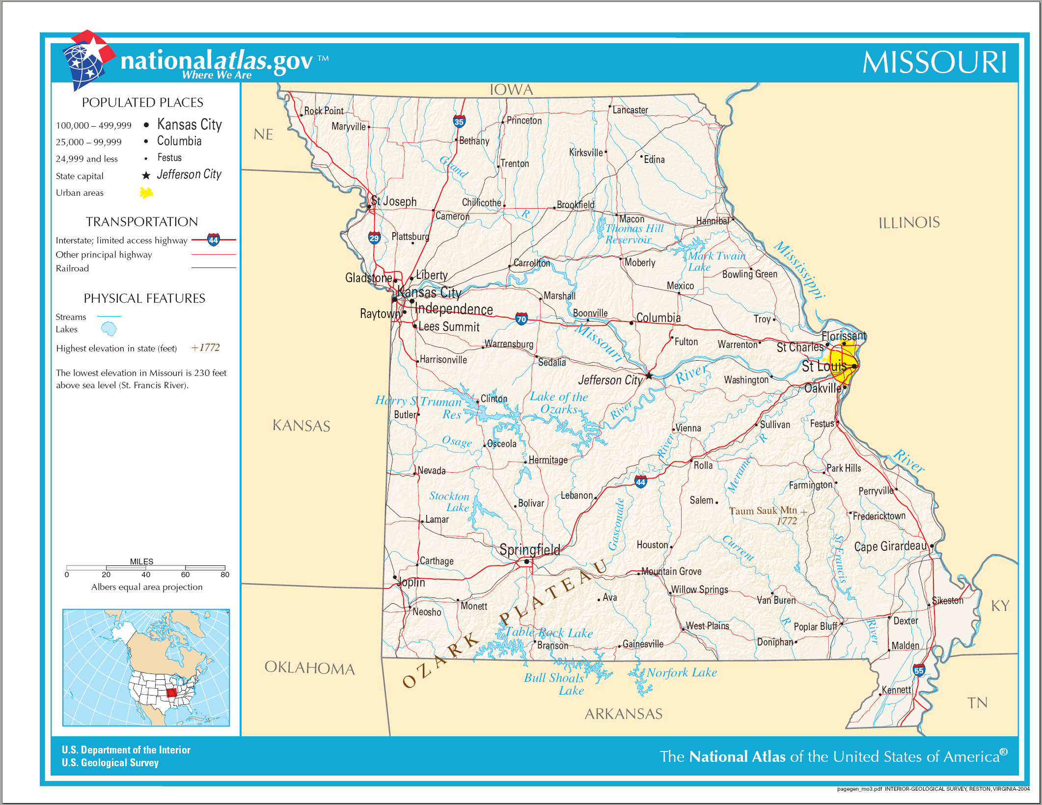 Map of Missouri.